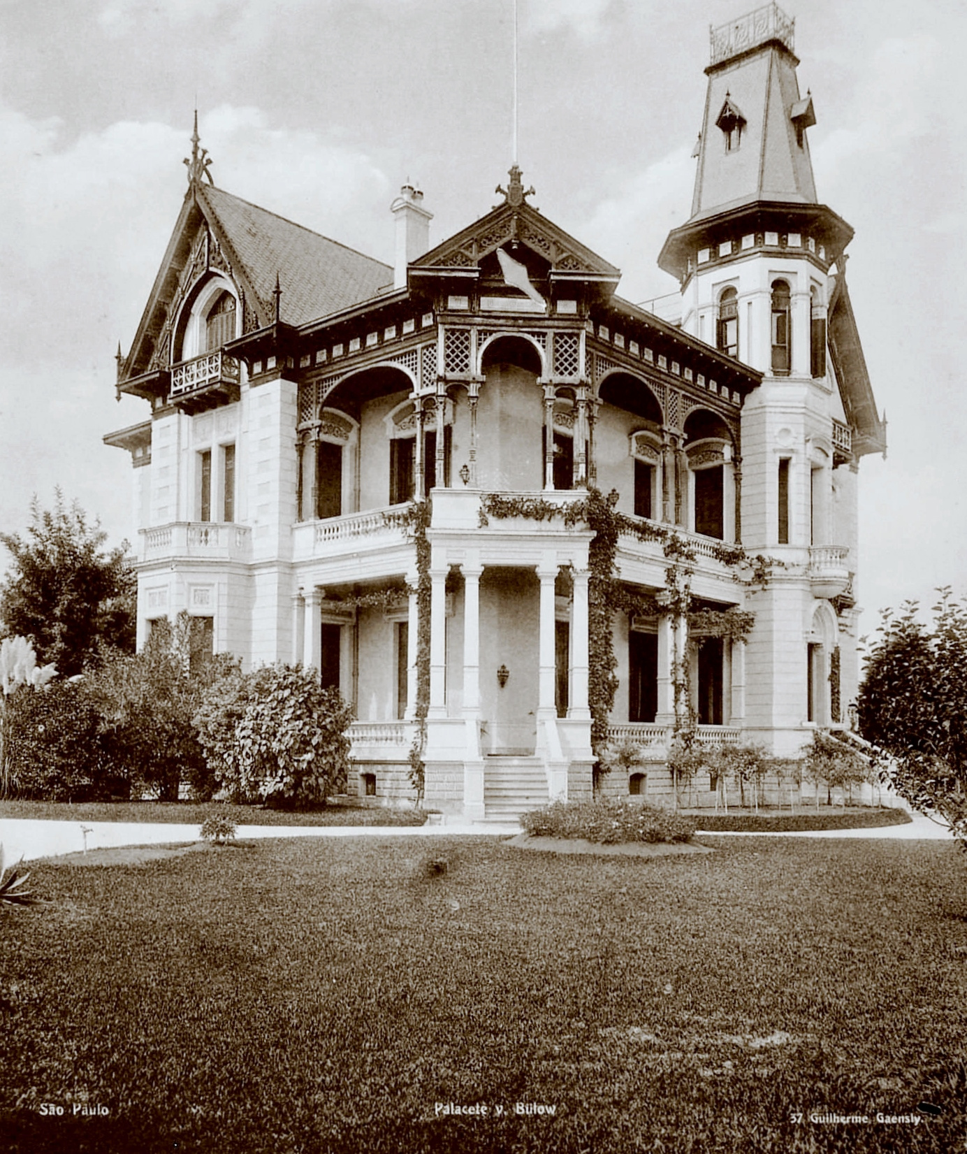 Palacete von Bülow, Avenida Paulista, São Paulo. This building has since been replaced by the 23 storey Pauliceia Building.